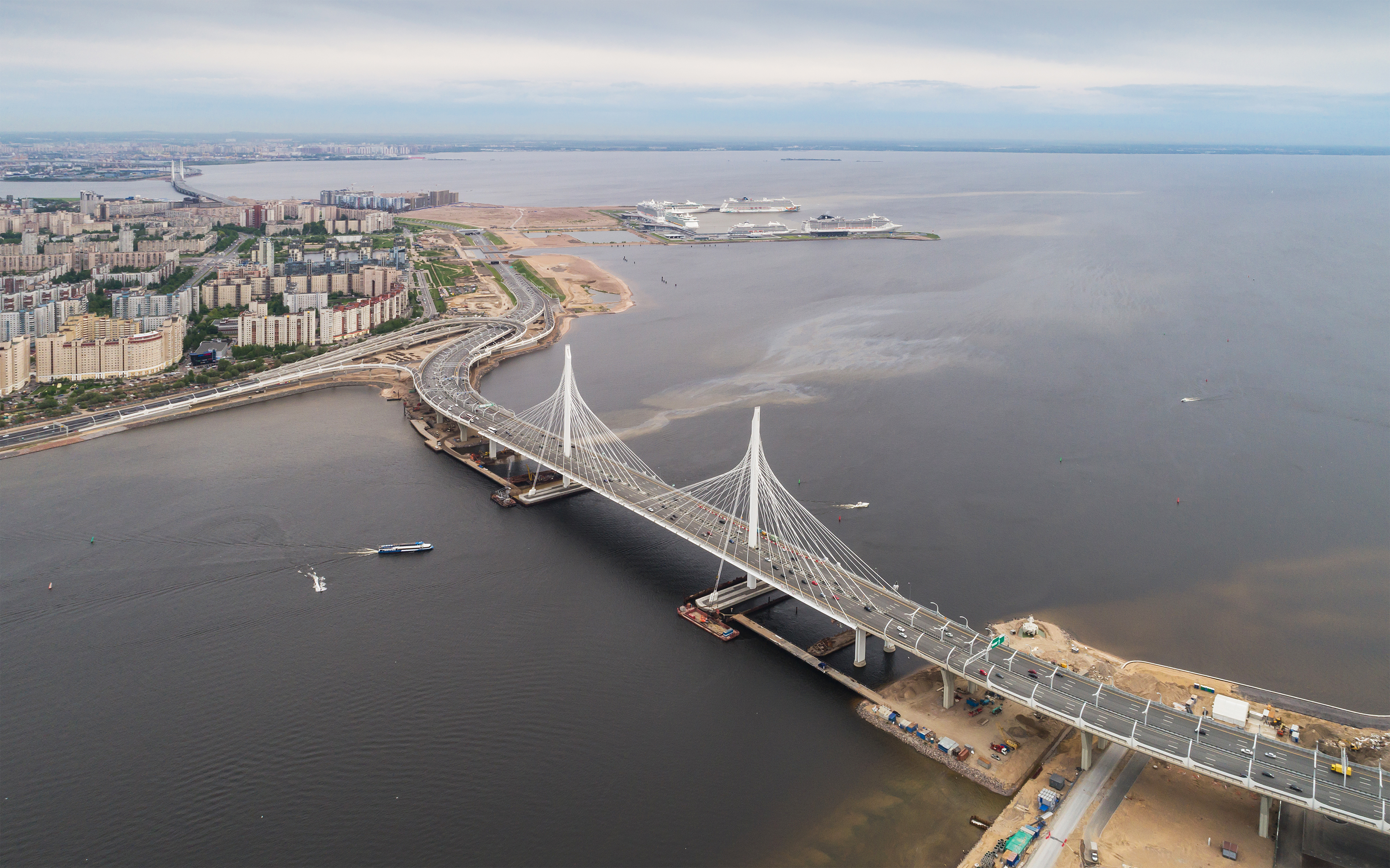 Aerial photo of the cable-stayed bridge at Krestovsky Stadium in Saint Petersburg (Russia).